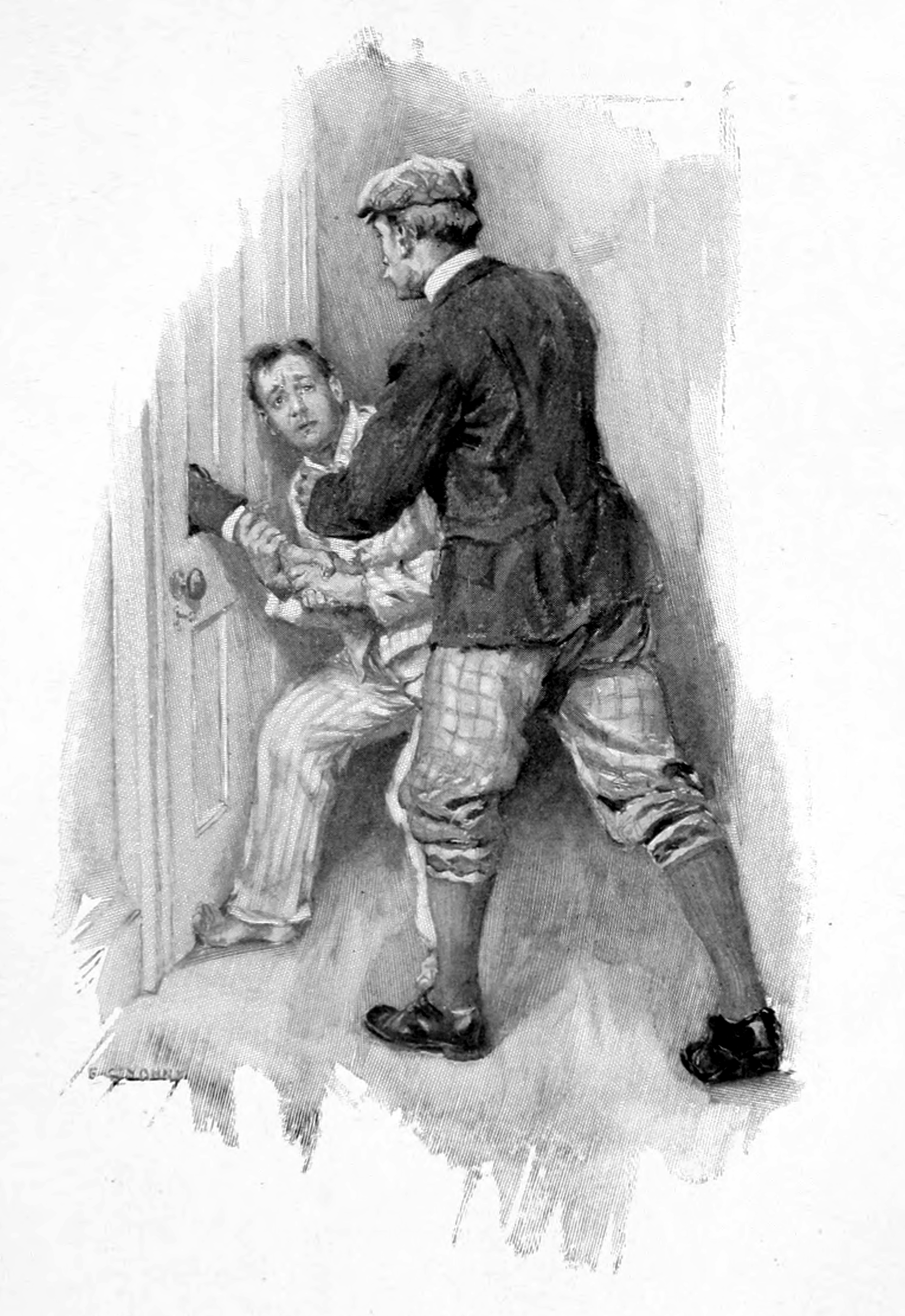 Illustrations from the book Raffles (Charles Scribner's sons, 1906), written by E. W. Hornung and illustrated by F. C. Yohn